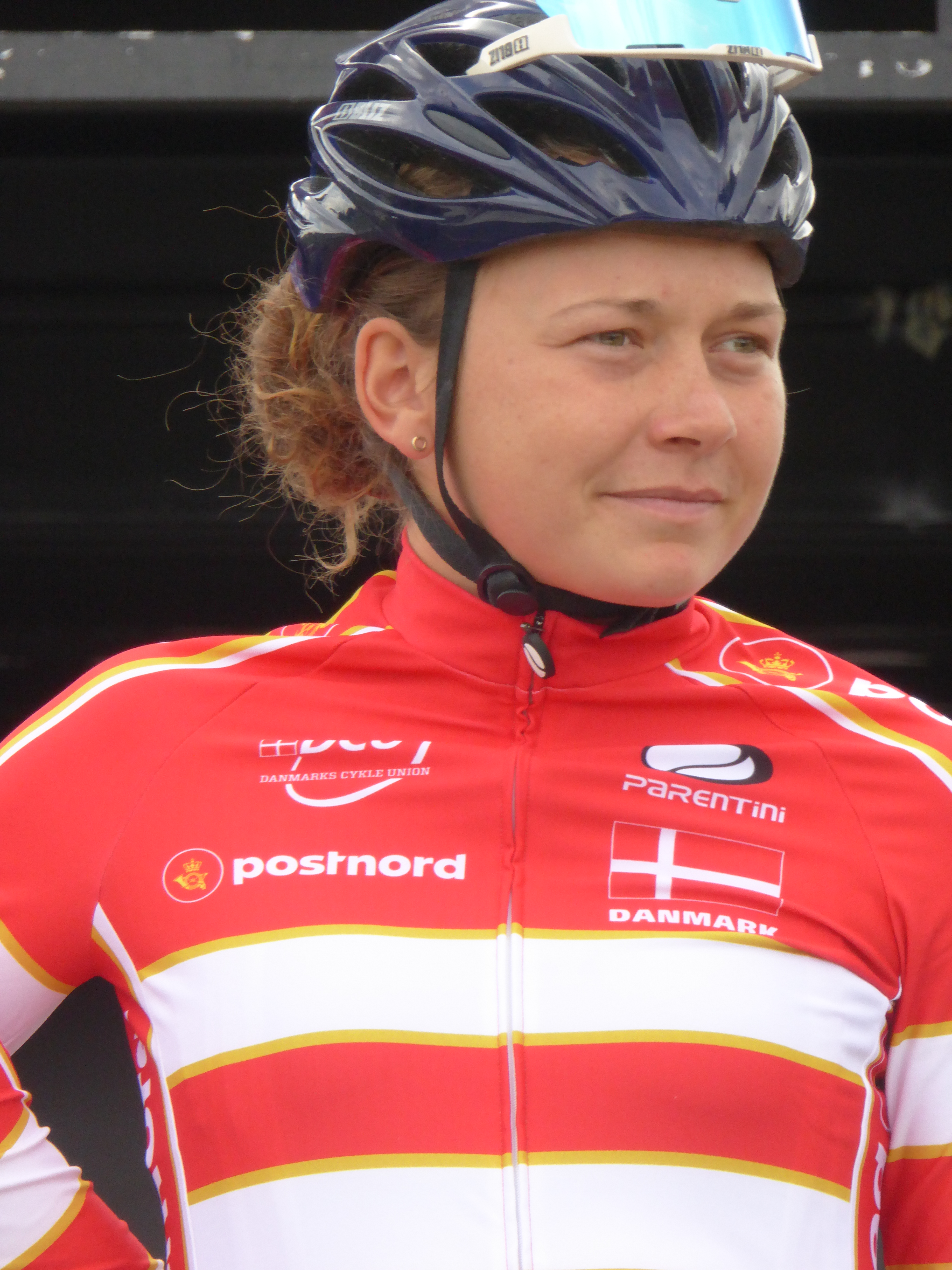 Christina Siggaard (Denmark), prior to the women's road race at the 2018 UEC European Road Cycling Championships in Glasgow.